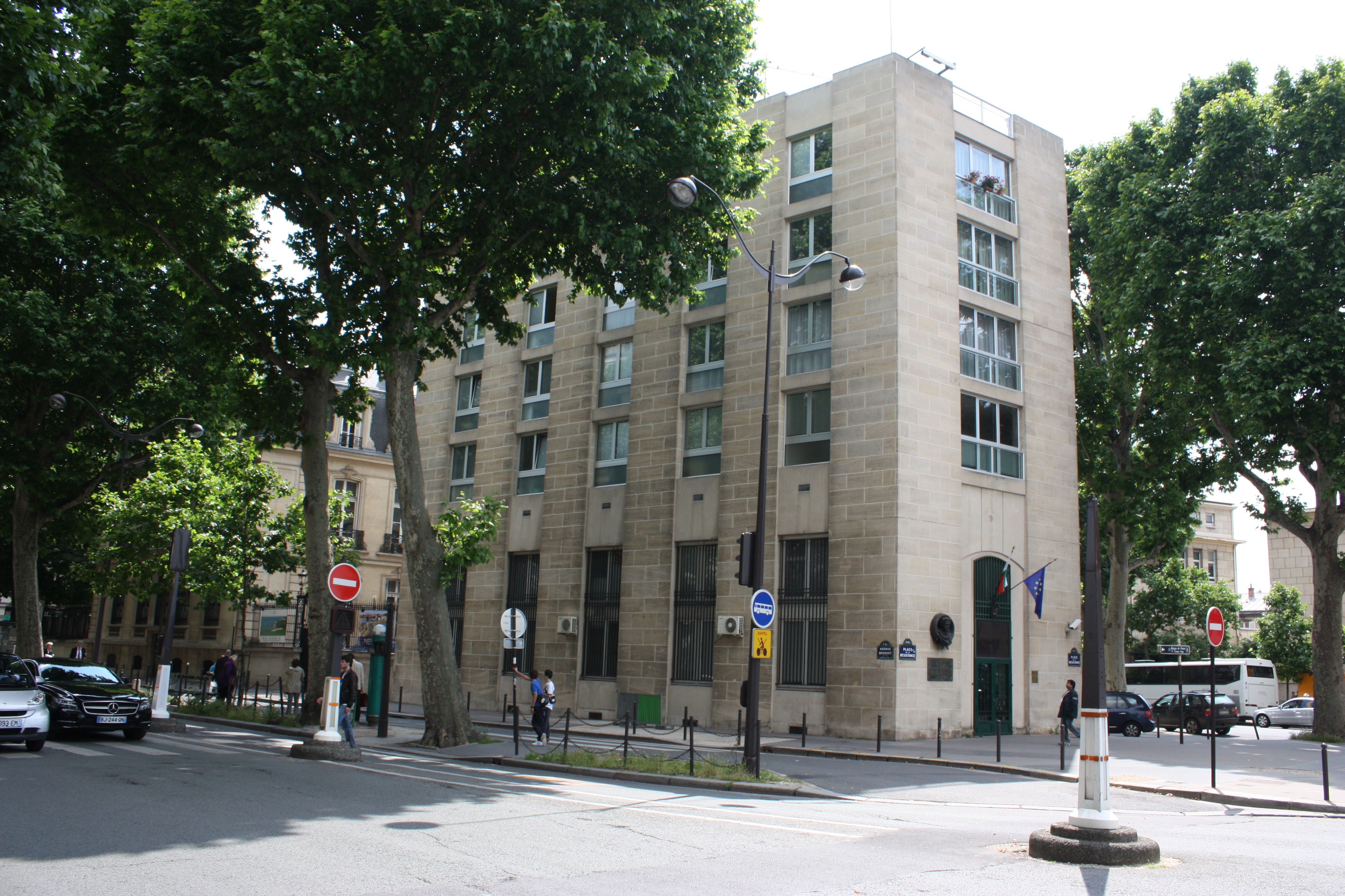 Embassy of Bulgaria, 1 avenue Rapp, Paris 7e